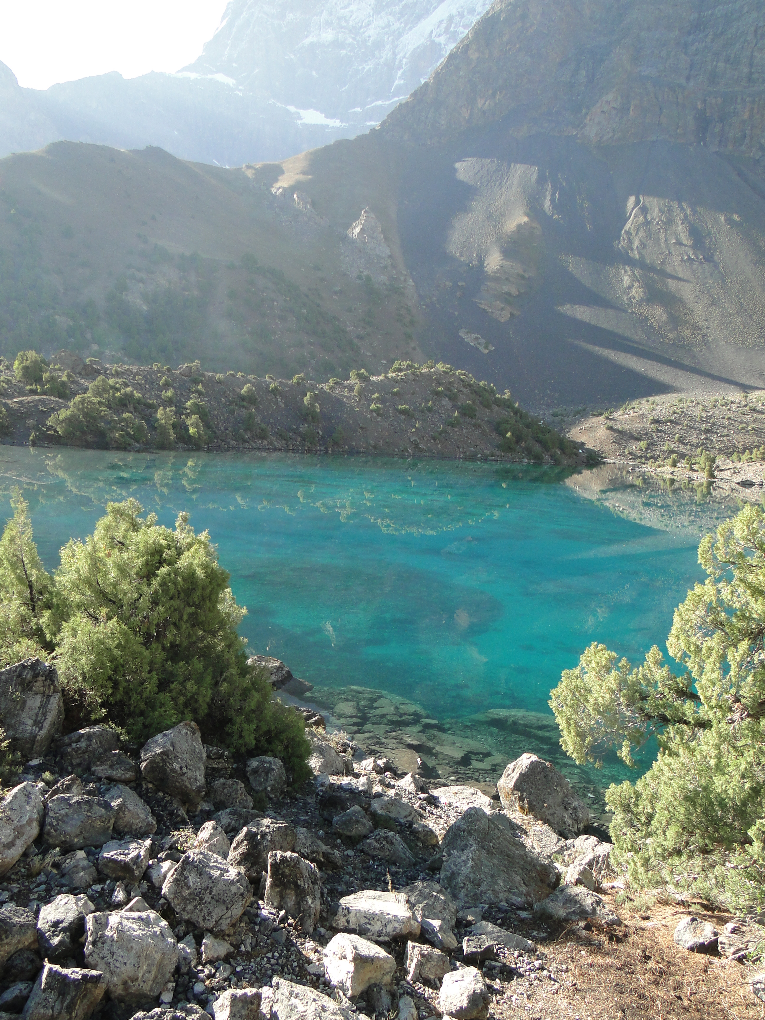 Mountain landscape in the Fan-Mauntains.Tadzhikistan